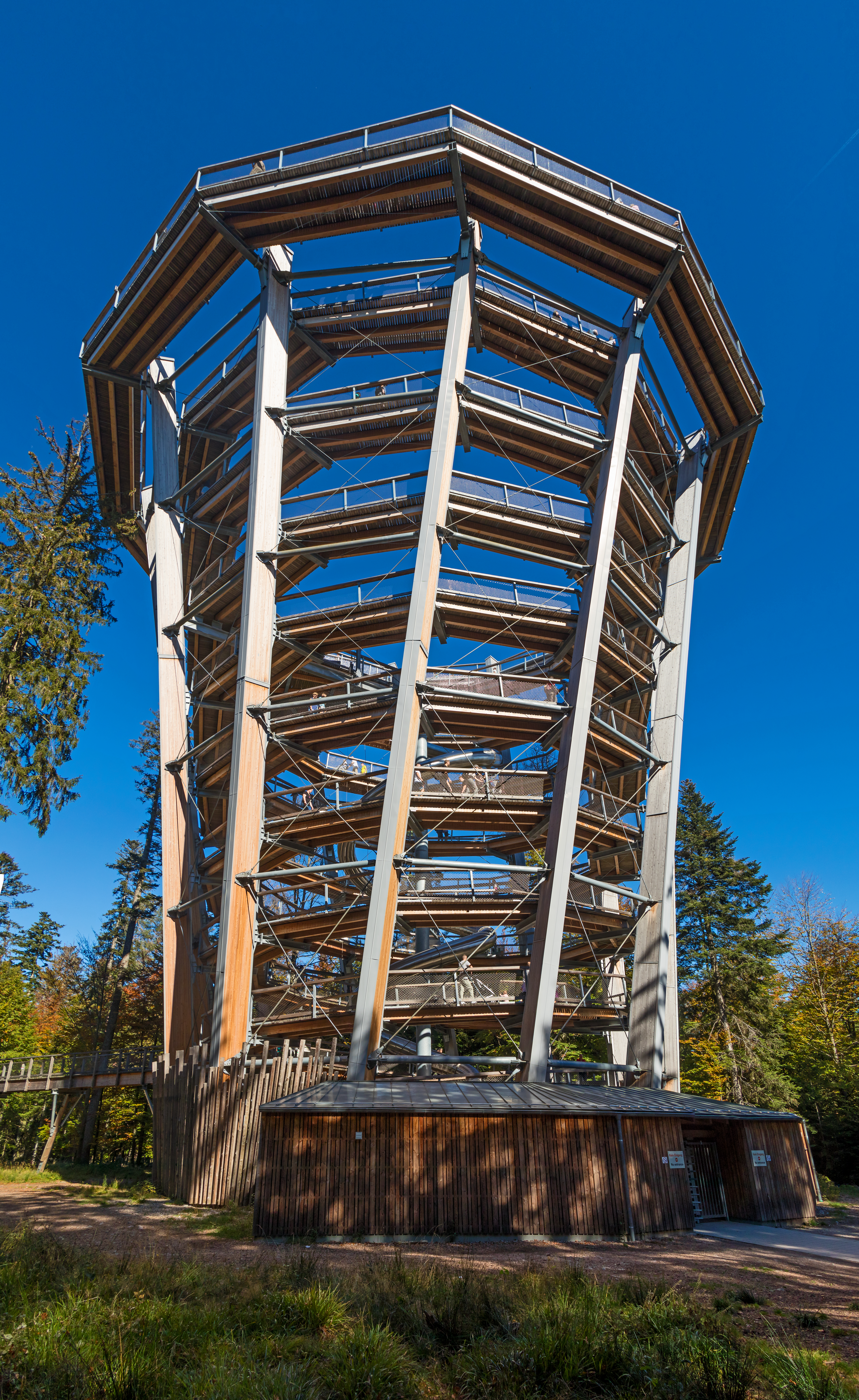 Observation tower, Black forest canopy walk, Bad Wildbad, Germany